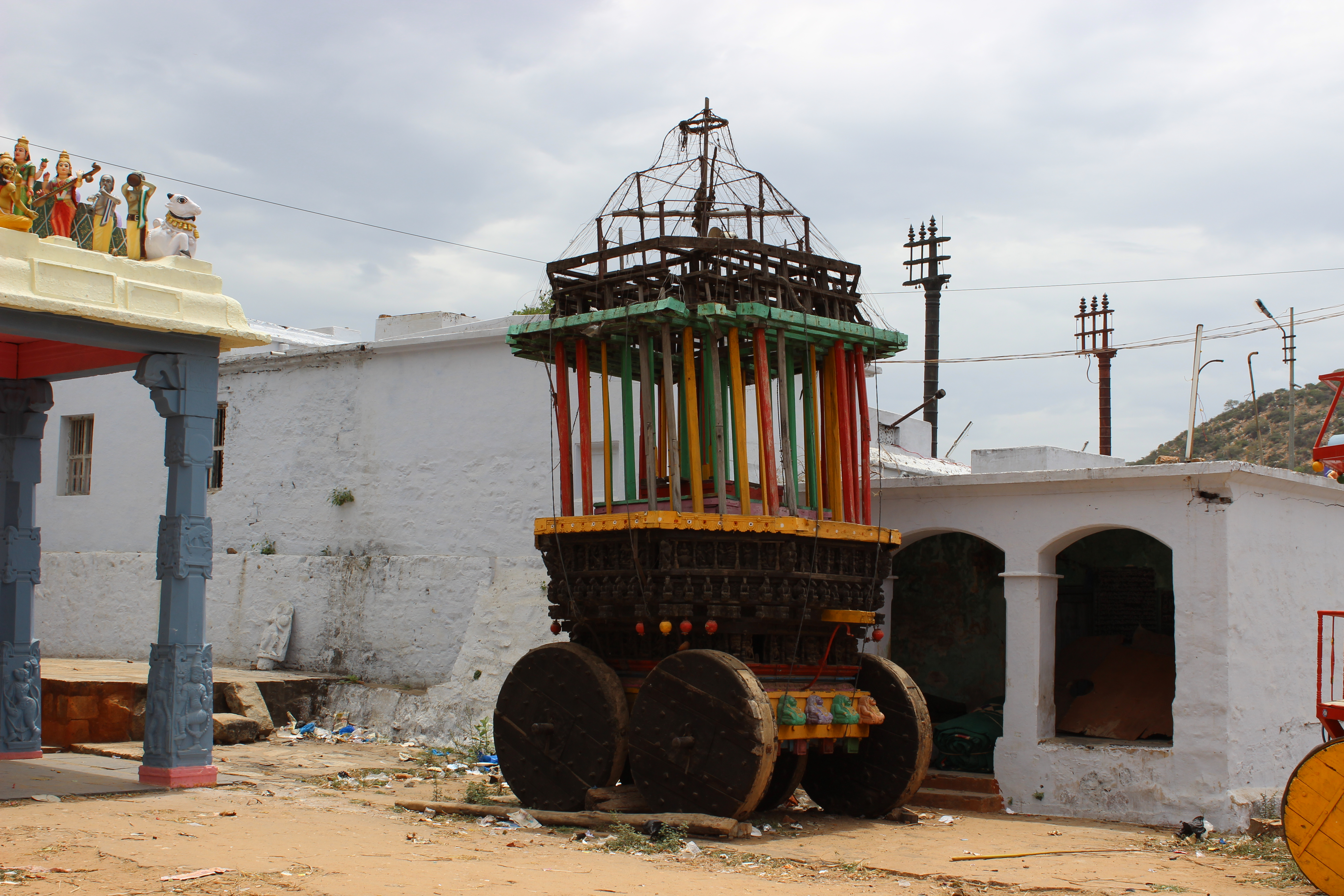 Sangameswara temple photos